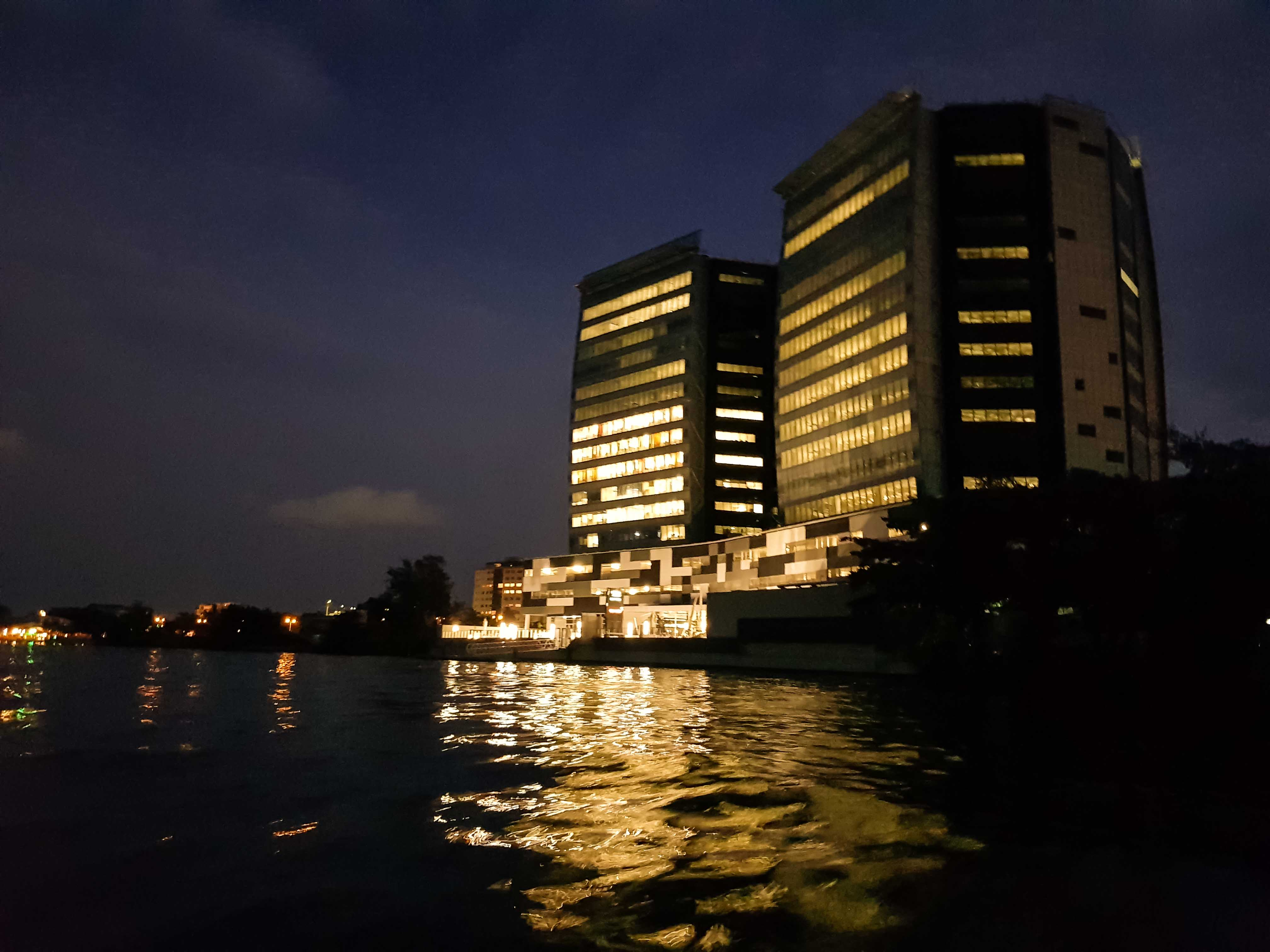 Oando PLC's Headquarters in The Wings Complex, 17a Ozumba Mbadiwe Avenue, Victoria-Island, Lagos